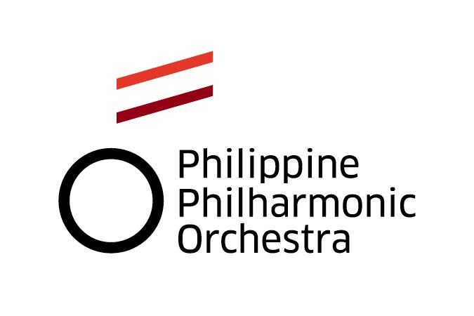 Logo of the Philippine Philharmonic Orchestra